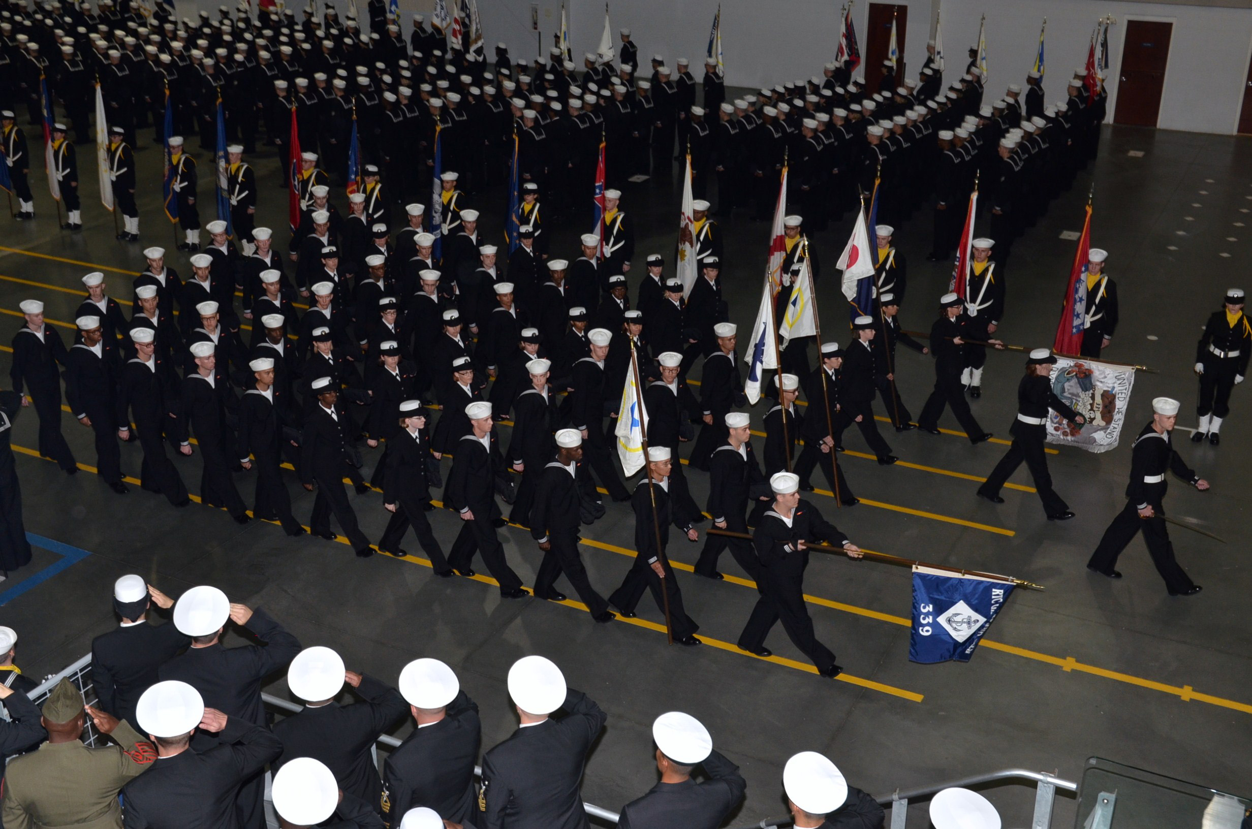 NAVAL STATION GREAT LAKES, Ill. (Oct. 7, 2011) Recruit Division 339 marches into Midway Ceremonial Drill Hall at Recruit Training Command, the Navy's only boot camp, as part of a pass in review ceremony. Division 399 is one of 13 divisions numbering 967 recruits to graduate upon completion of boot camp. Approximately 7,000 recruits are training at the command, which trains more than 38,000 Sailors annually. (U.S. Navy photo by Sue Krawczyk/Released)